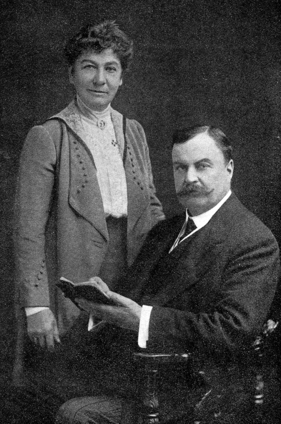 Portrait of Sir David Bruce with Lady Bruce